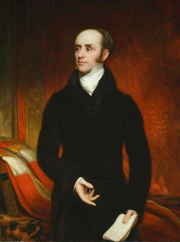 Portrait of Charles Grey, 2nd Earl Grey, Prime Minister of Great Britain